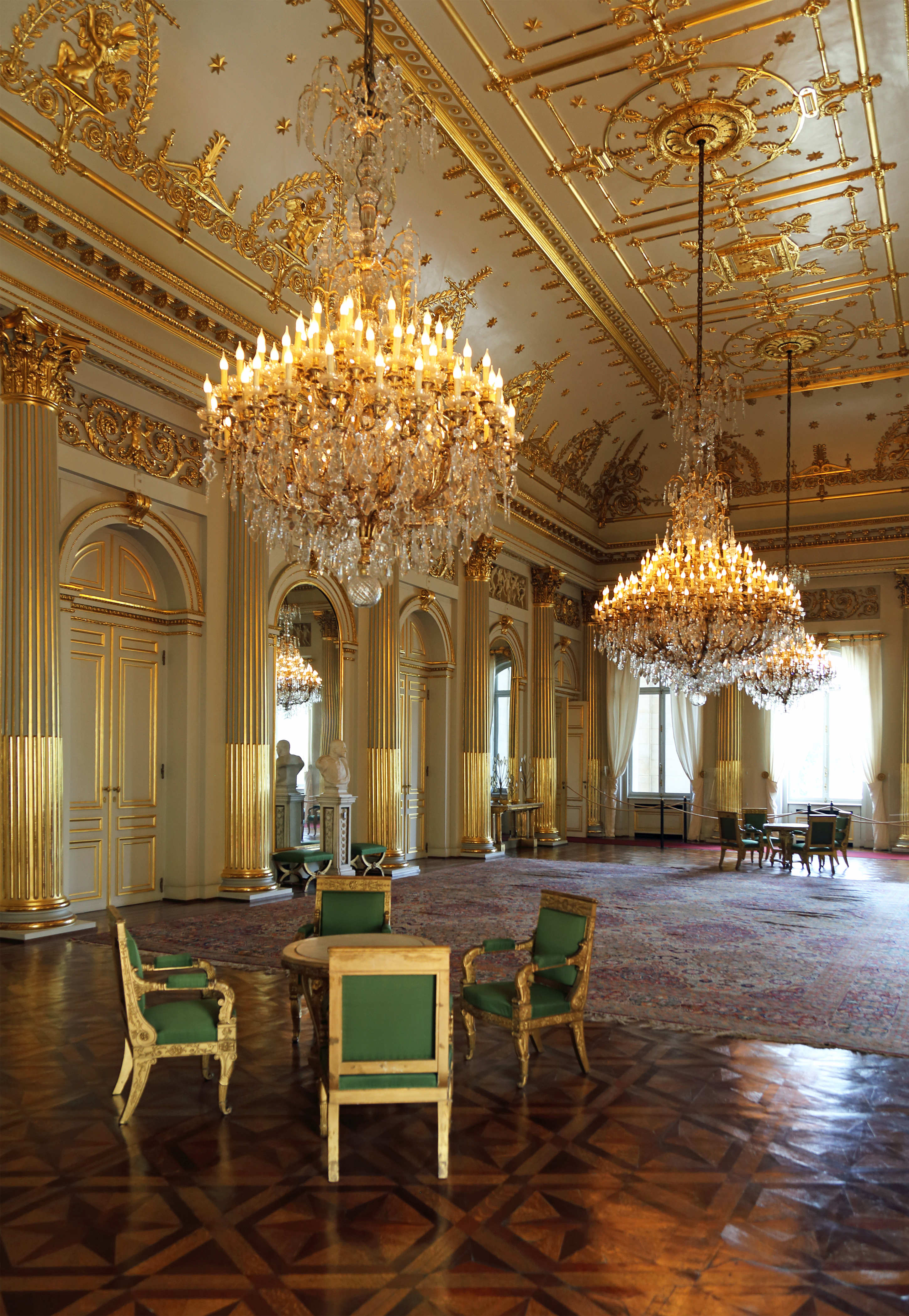 Brussels (Belgium): interior of the Royal Palace